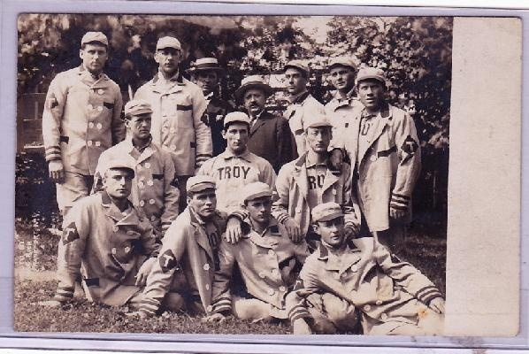 The baseballteam "Troy Trojans"